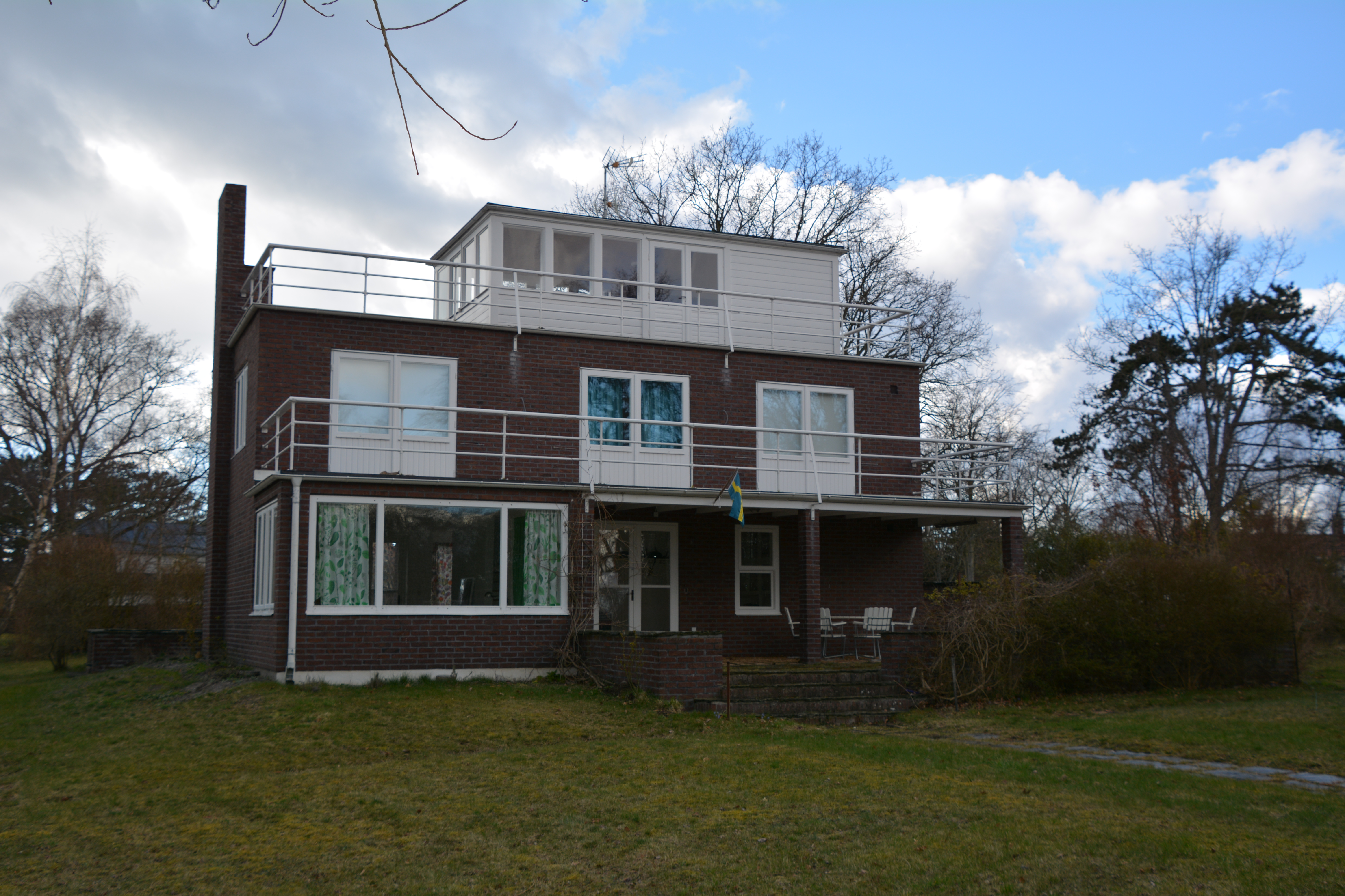 Josef Franks Villa Claêson i Falsterbo